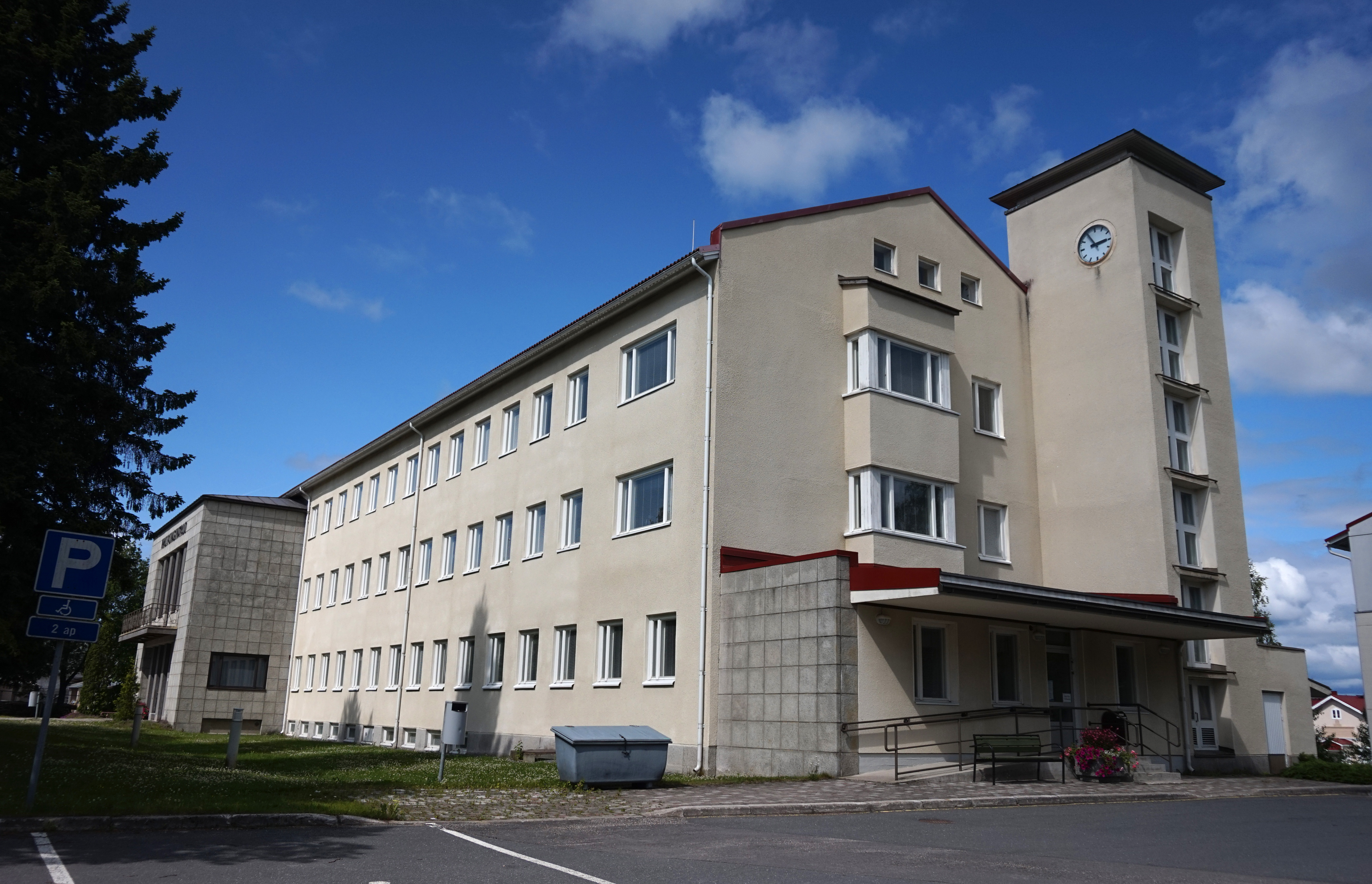 Town Hall in Jämsä.This photograph was taken with a Sony ILCE-5000